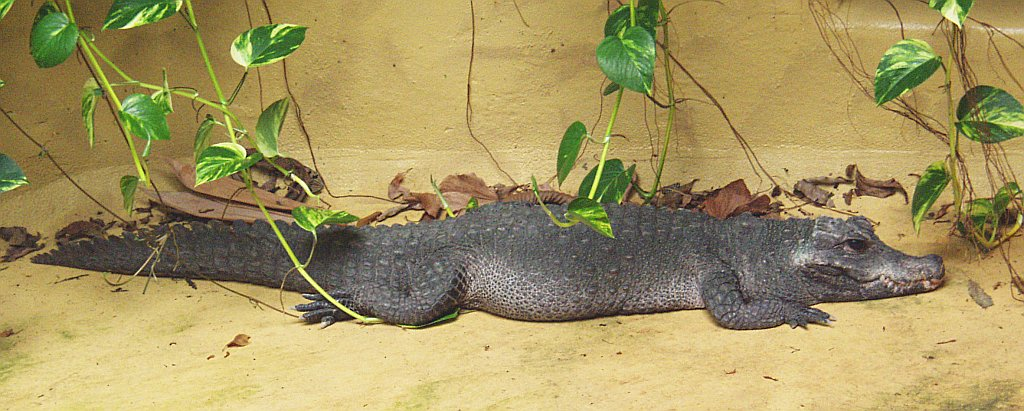 Dwarf Crocodile (Ostaeolaemus tetraspis) at Aquazoo-Löbbecke-Museum Düsseldorf